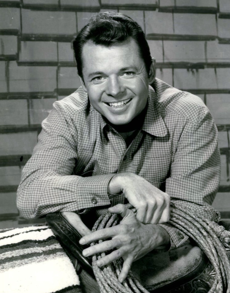 Photo of Audie Murphy as Tom Smith from the television program Whispering Smith.